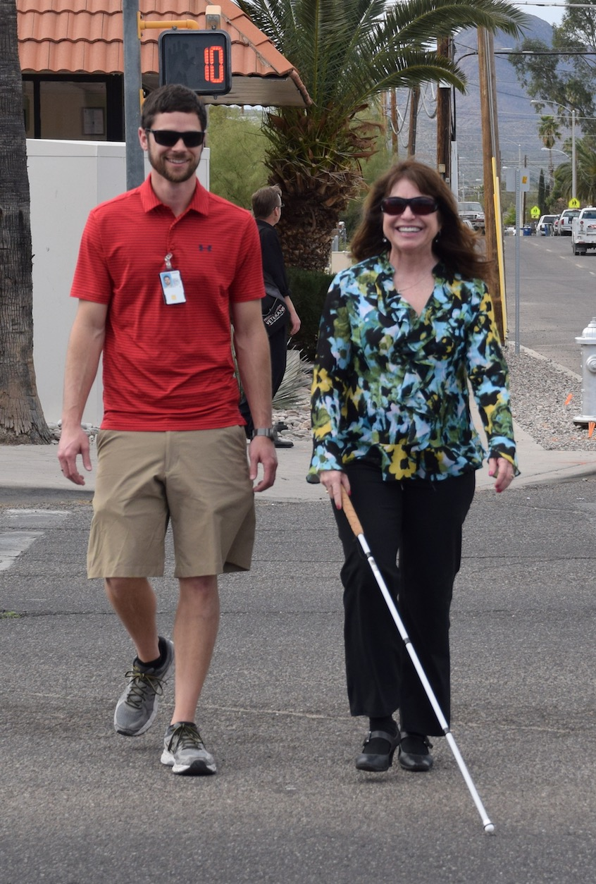 Orientation and Mobility Instructor Charles Alex Smith and Veteran Paula Pedene cross the street. Smith says in these instances it is important to ensure you have a wide sweep with your cane so both pedestrians and traffic can notice the need for caution.